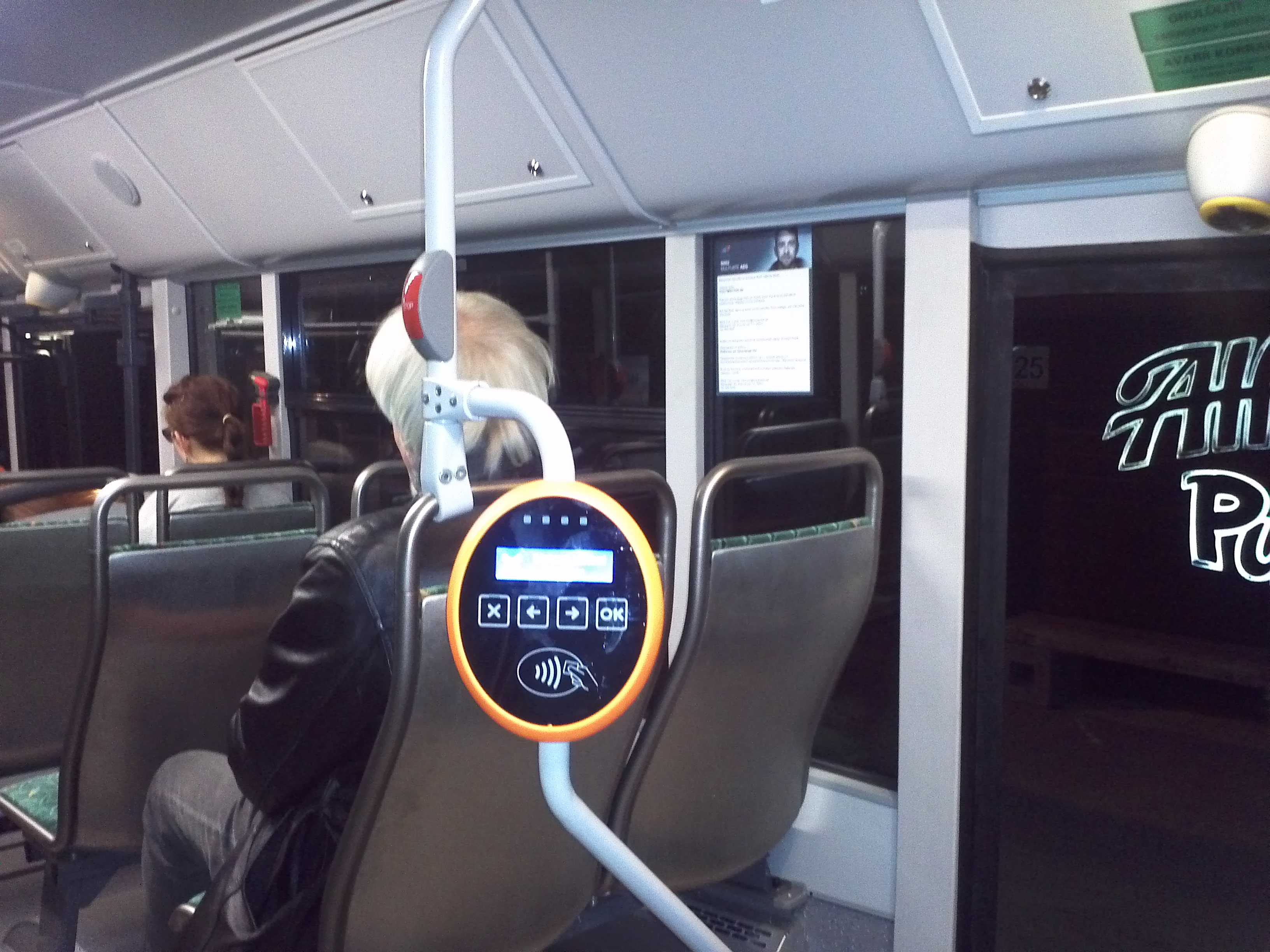 Ticket reader in Tallinn public transport